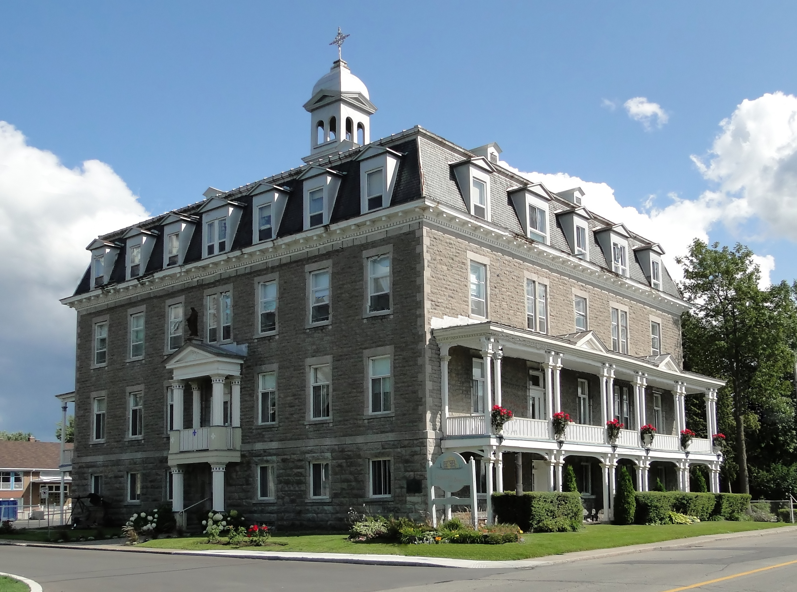 Former convent (1888-1972) of Nuns of Congregation of Notre Dame, Boucherville, province of Quebec, Canada